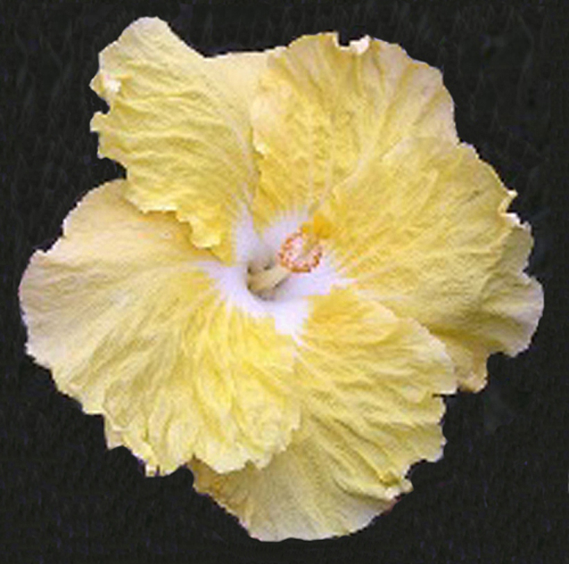 Image of the cultivar Hibiscus rosa-sinensis 'Kinchen's Yellow'